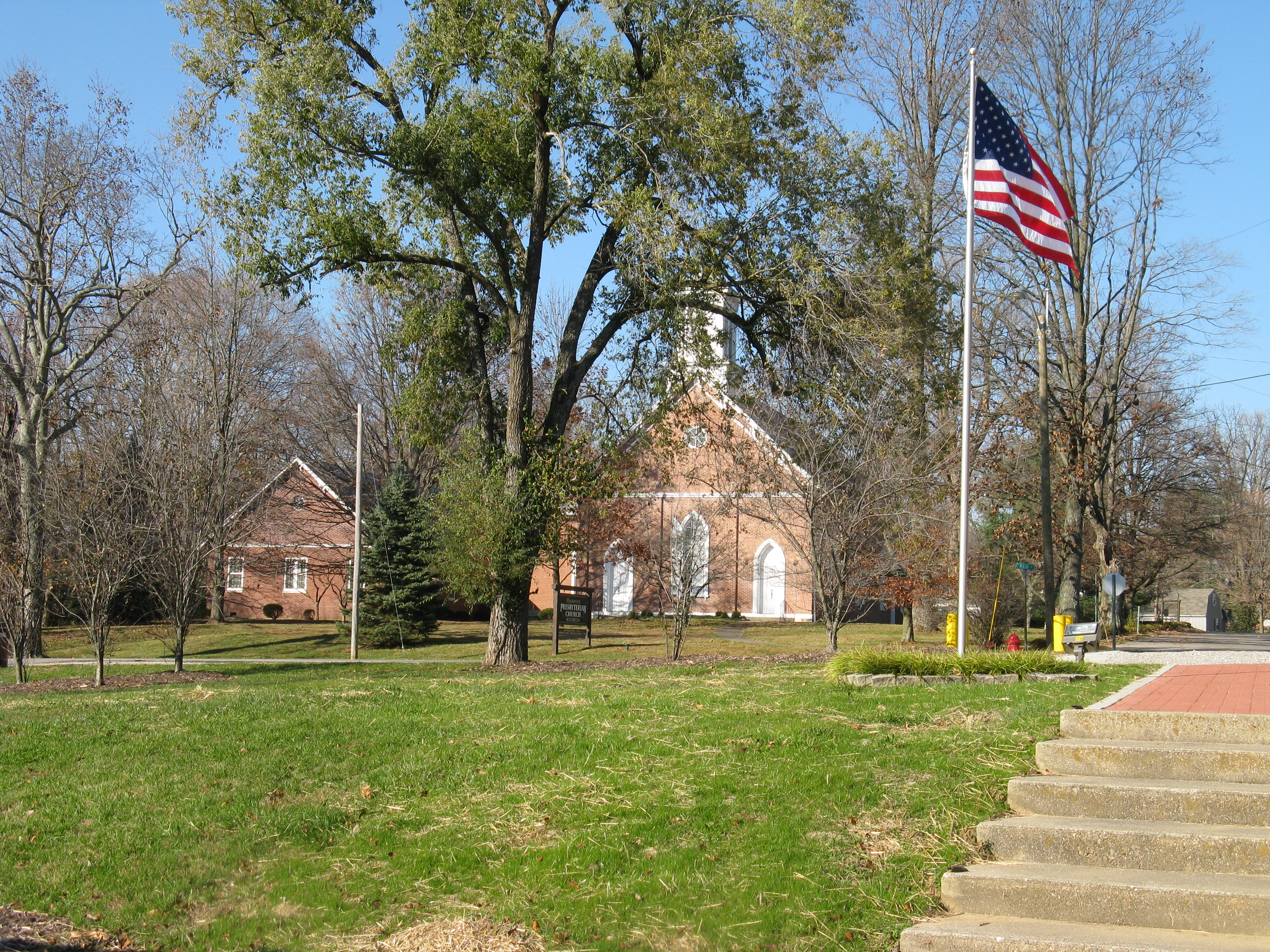 Hanover Presbyterian Church from Firemans Park.